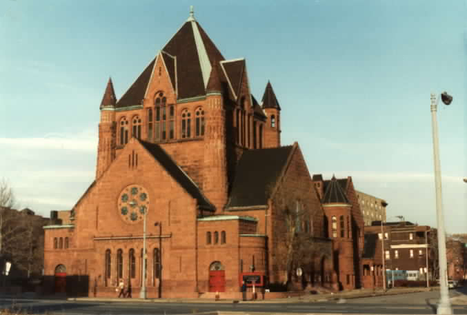 photo by Einar Einarsson Kvaran Richardsonian Romanesque